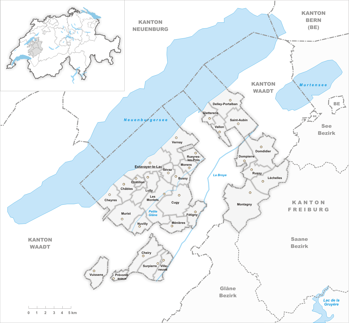 Municipality in the District of Broye